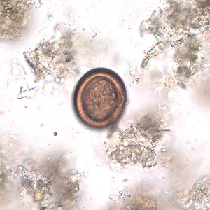 picture of echinococcus egg